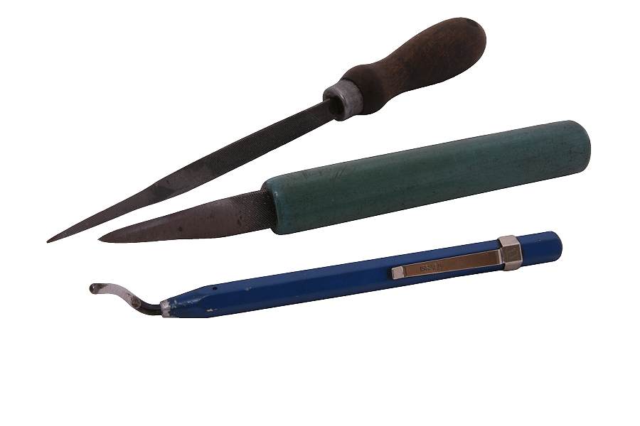 sabr